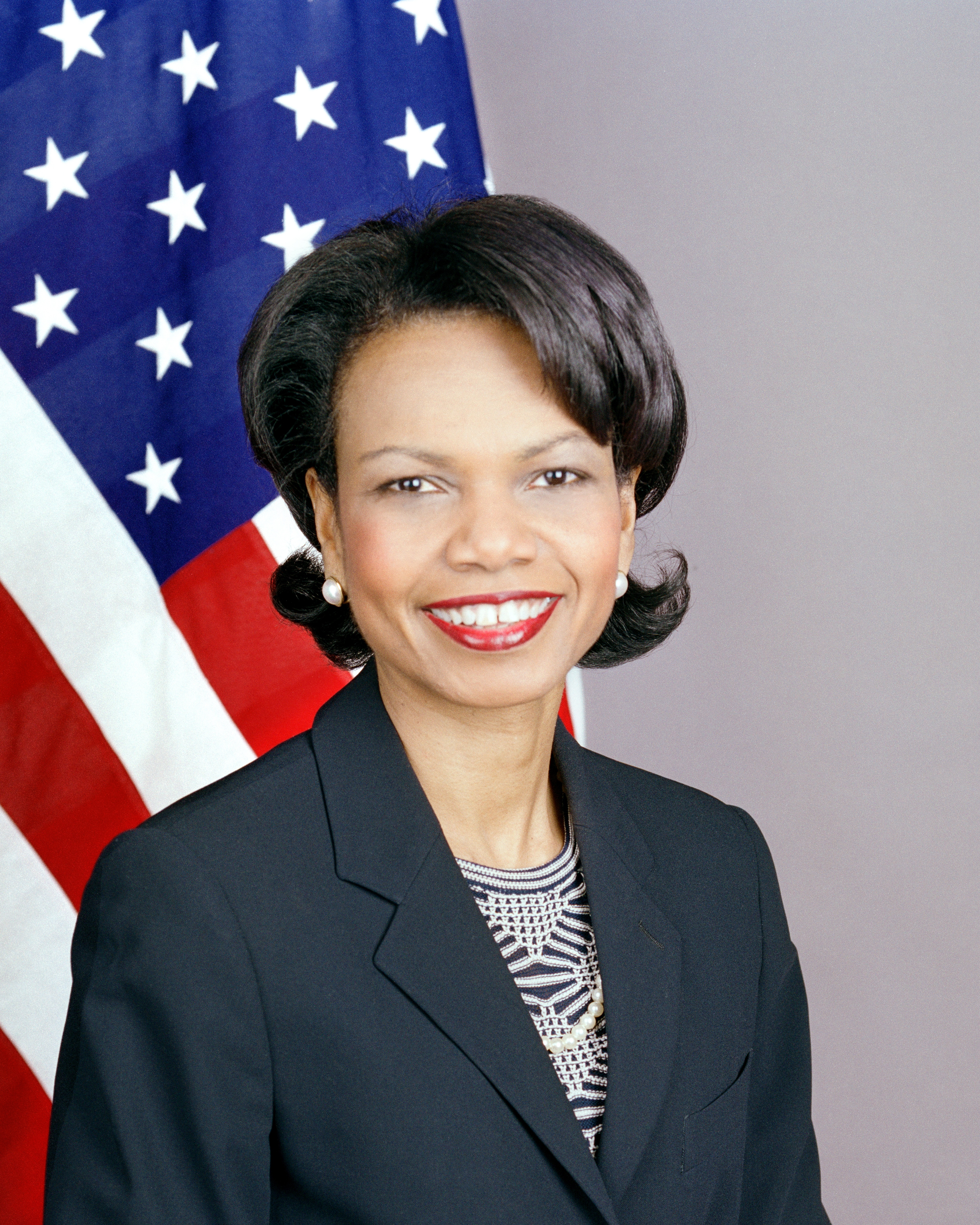 An official portrait of Condoleezza Rice. Contrast enhanced from State department version to compensate for slight light overexposure.